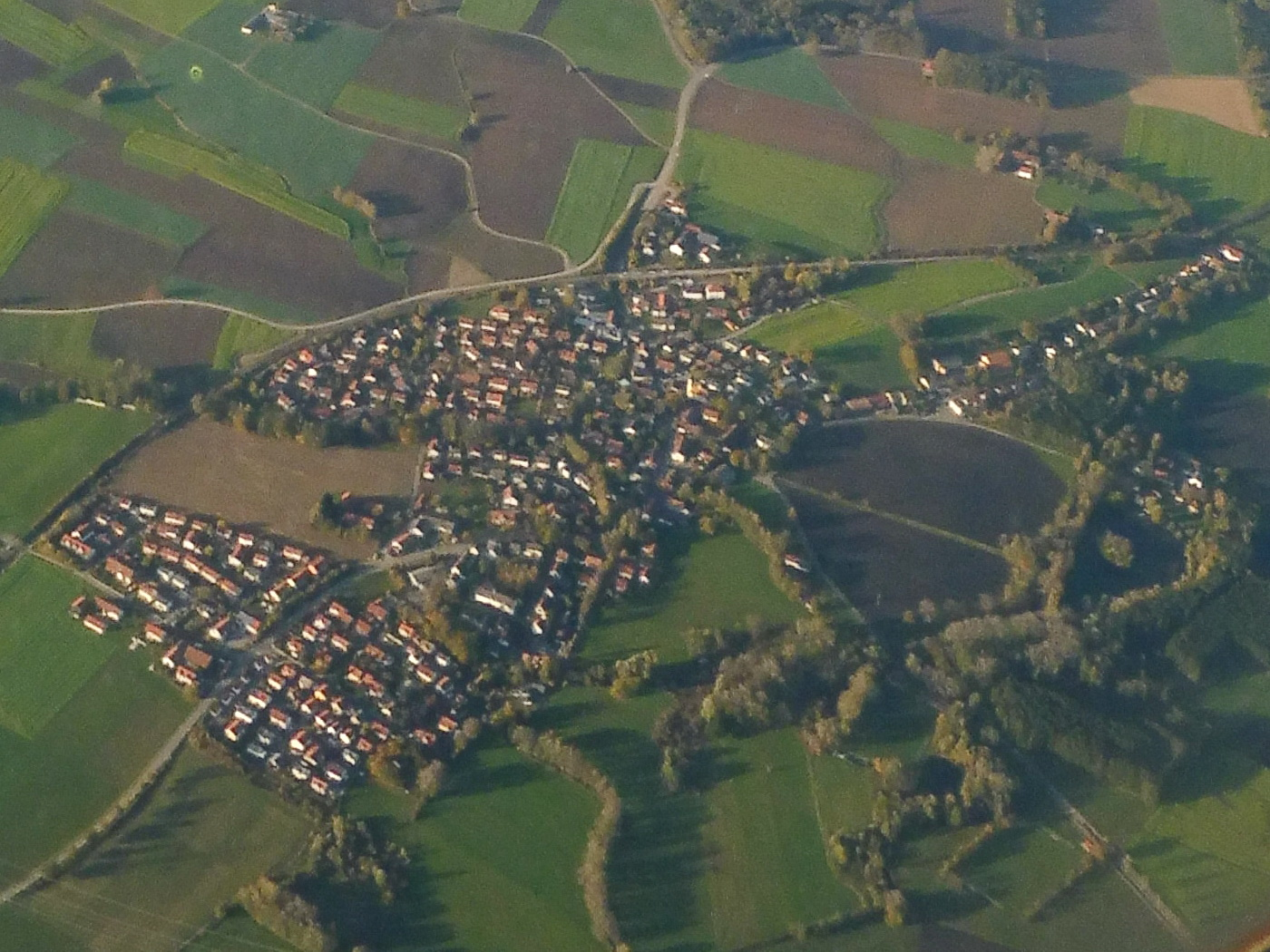 Aerial photograph of Ottenhofen (District of Erding) in Upper Bavaria